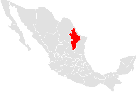 A map of the Mexican state of nuevo leon made by me